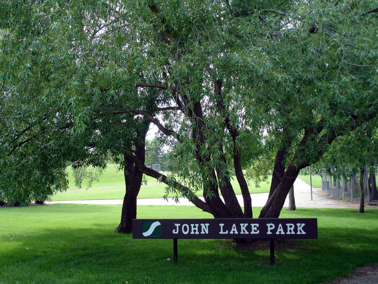 John Lake Park, a public park in the Avalon neighbourhood of Saskatoon, Saskatchewan, Canada.